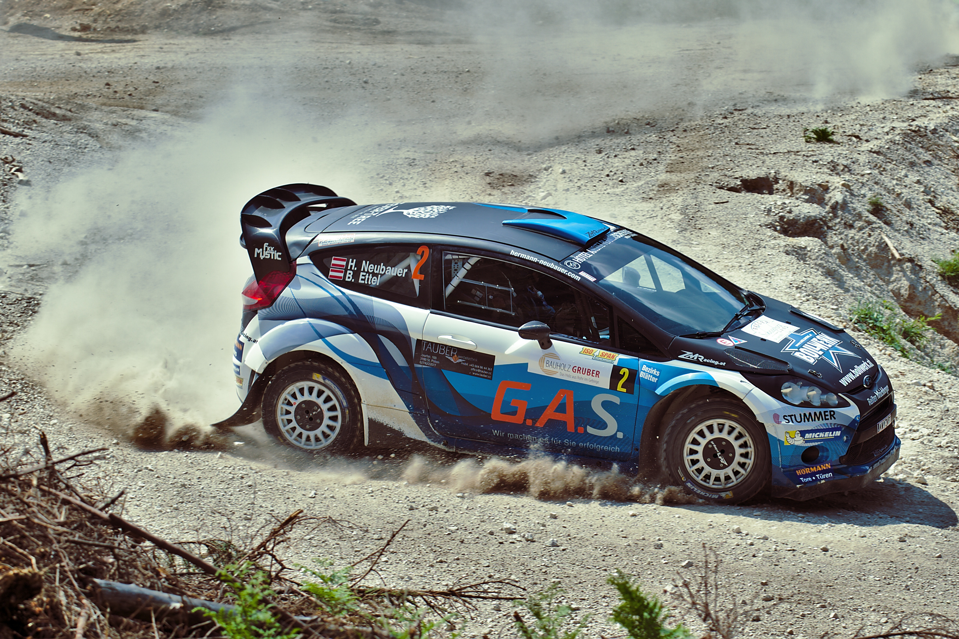 Schneeberglandrallye 2017, Rohr am Gebirge. Picture shows: Hermann Neubauer and Bernhard Ettel on Ford Fiesta RS WRC